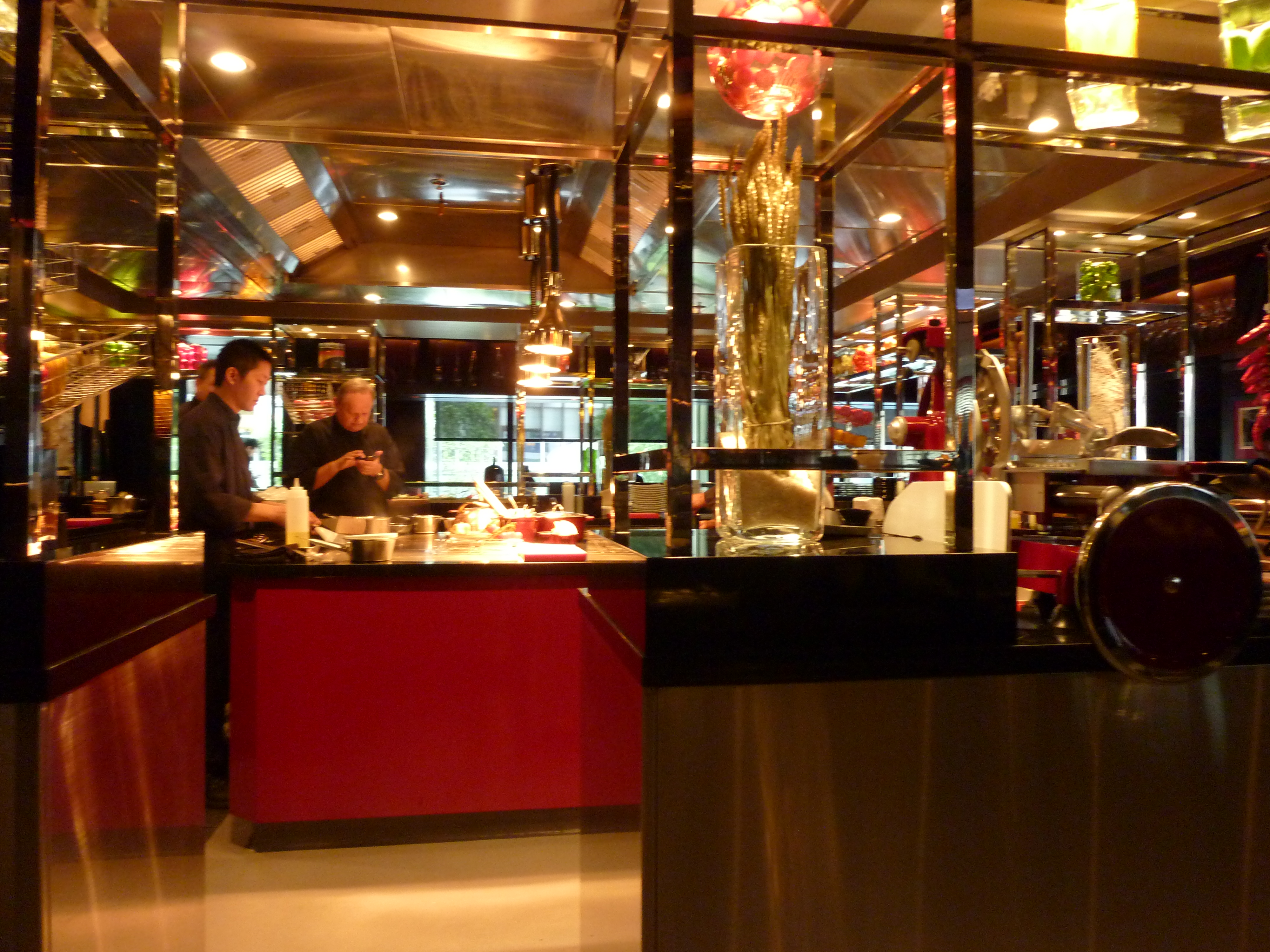 Joël Robuchon in the open kitchen of L'Atelier de Joël Robuchon in Hong Kong, preparing for lunchtime opening on 14 September 2010